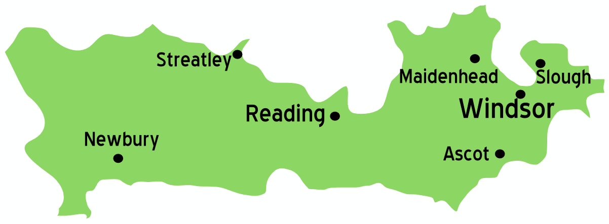 Map of Berkshire, England.